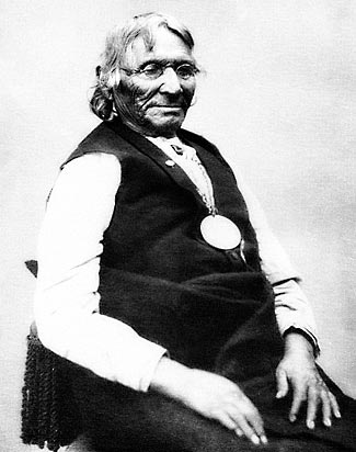 Chief Ten Bears of the Tamparika Comanche